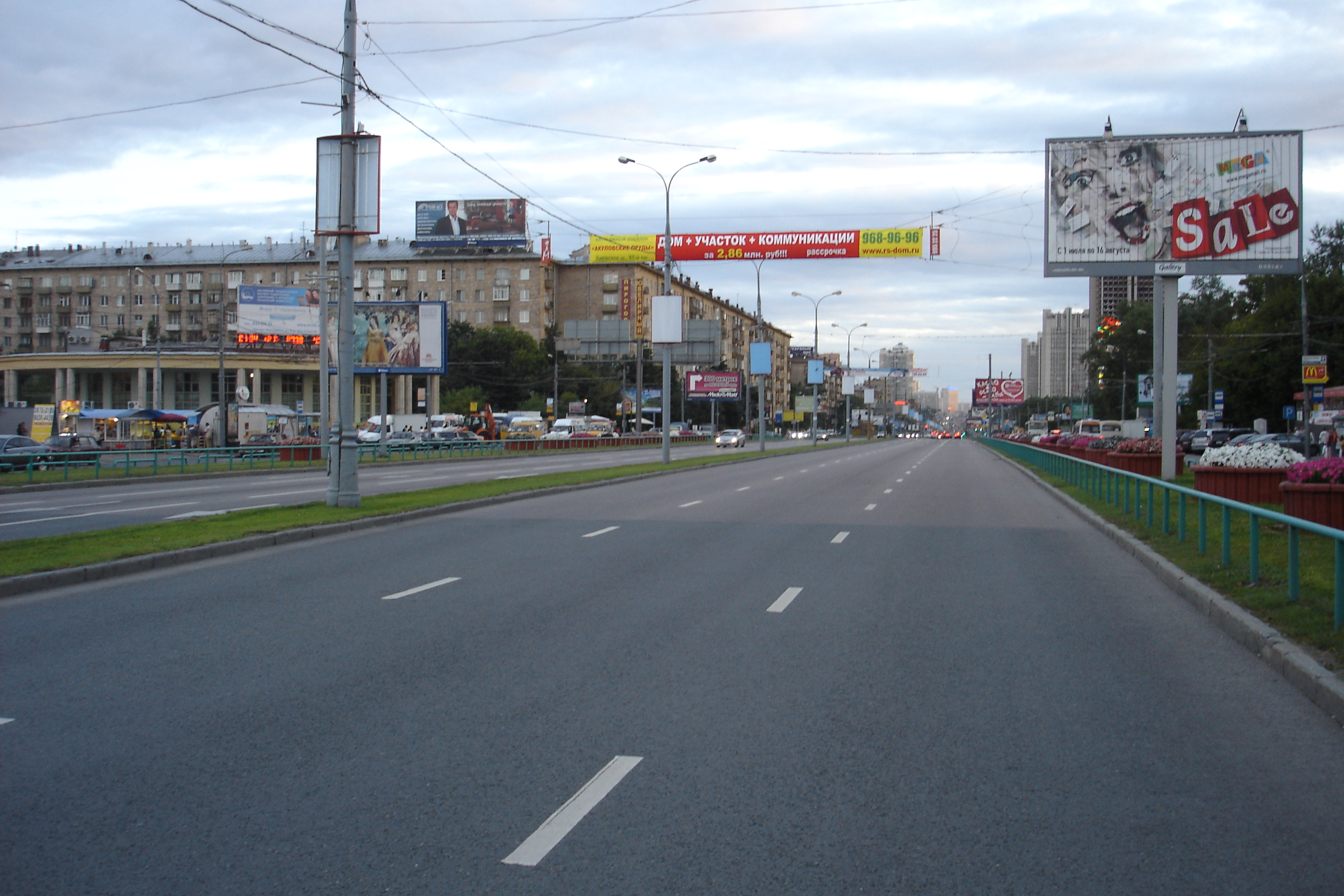 Segment of Vernadskogo boulevard near «Universitet» metro station